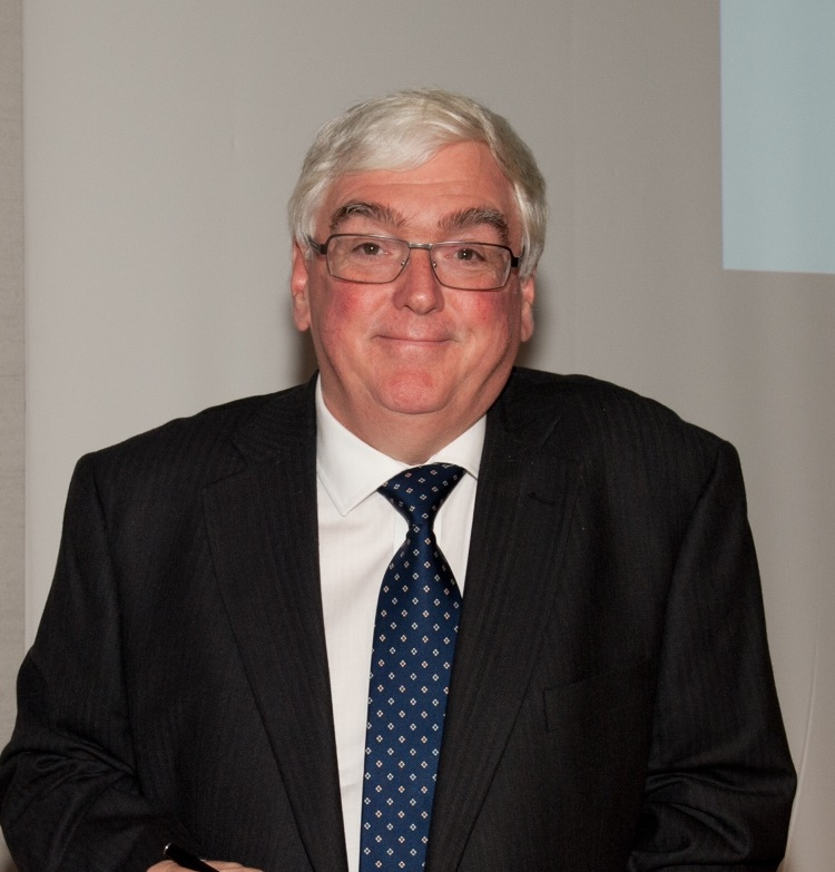 Paul O'Brien CBE FREng FRS is Professor of Inorganic Materials at the University of Manchester